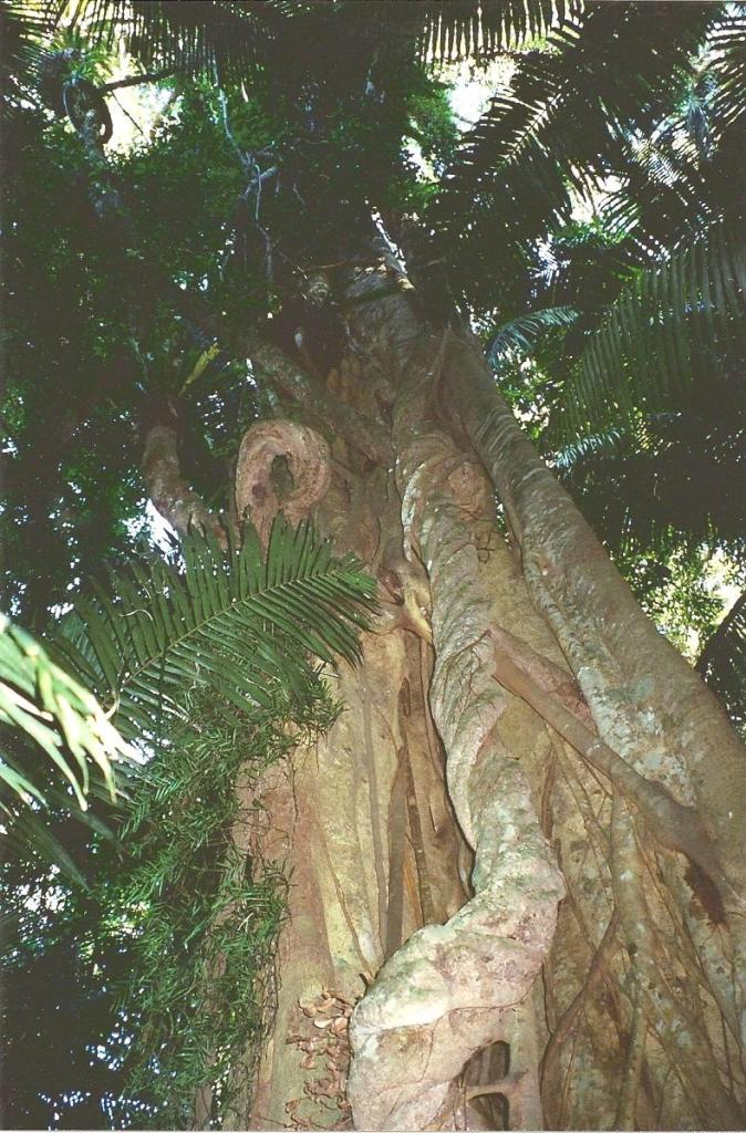 Ficus obliqua - estimated at between 50 and 65 metres tall, Border Ranges National Park, NSW, Australia